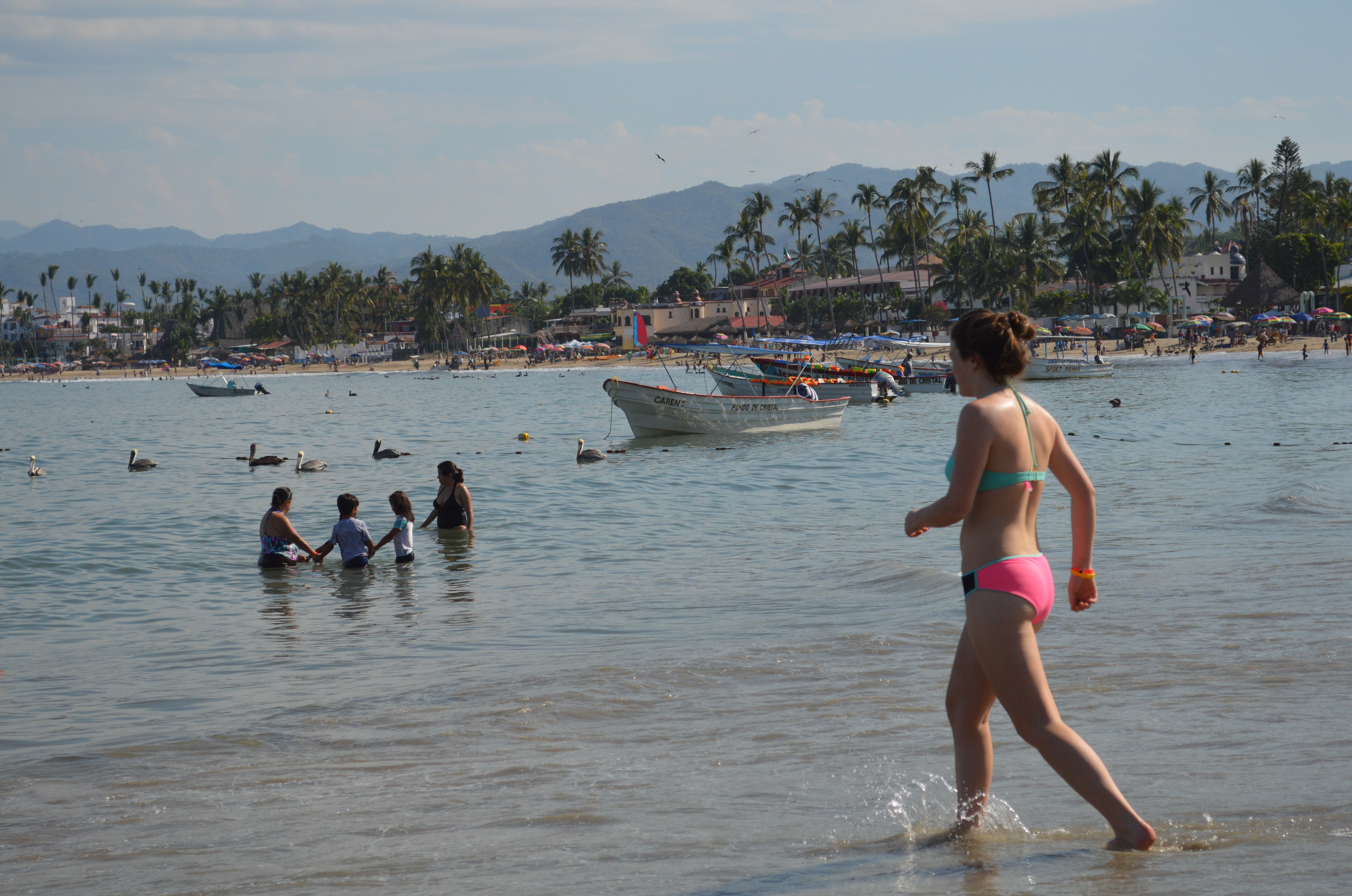 View of beach at Guayabitos, Nayarit, Mexico